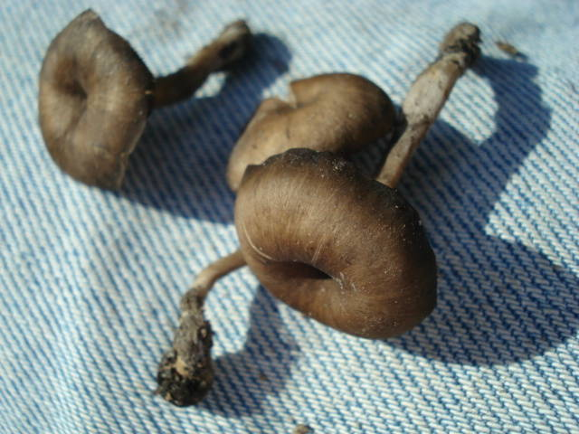 The mushroom Myxomphalia maura (Fr.) Hora. Specimen photographed in Choteau, MT, USA. "Notes: Found in a second year coniferous burn."